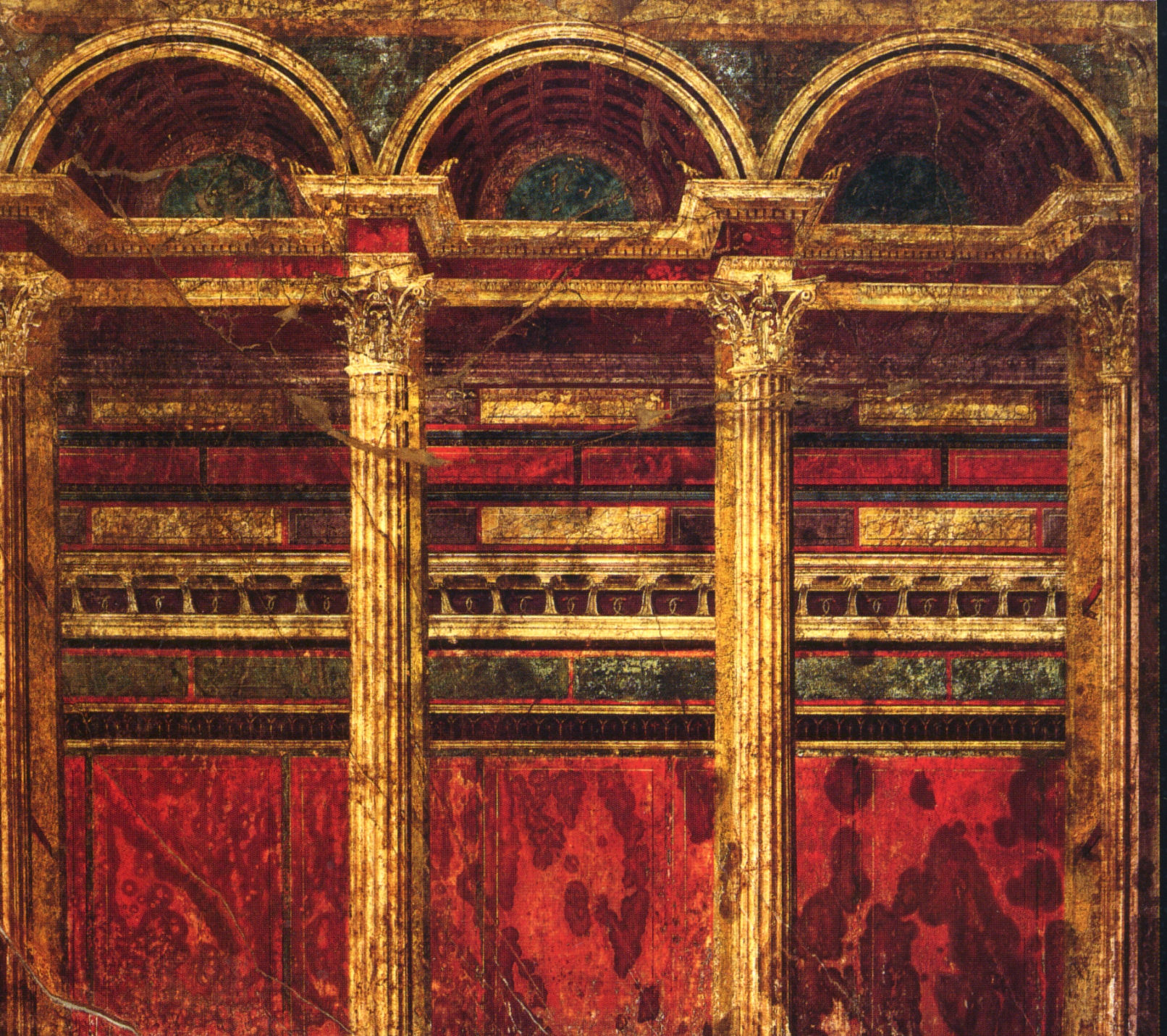 Roman fresco (2nd style) from the cubiculum of the Villa dei Misteri in Pompeii.